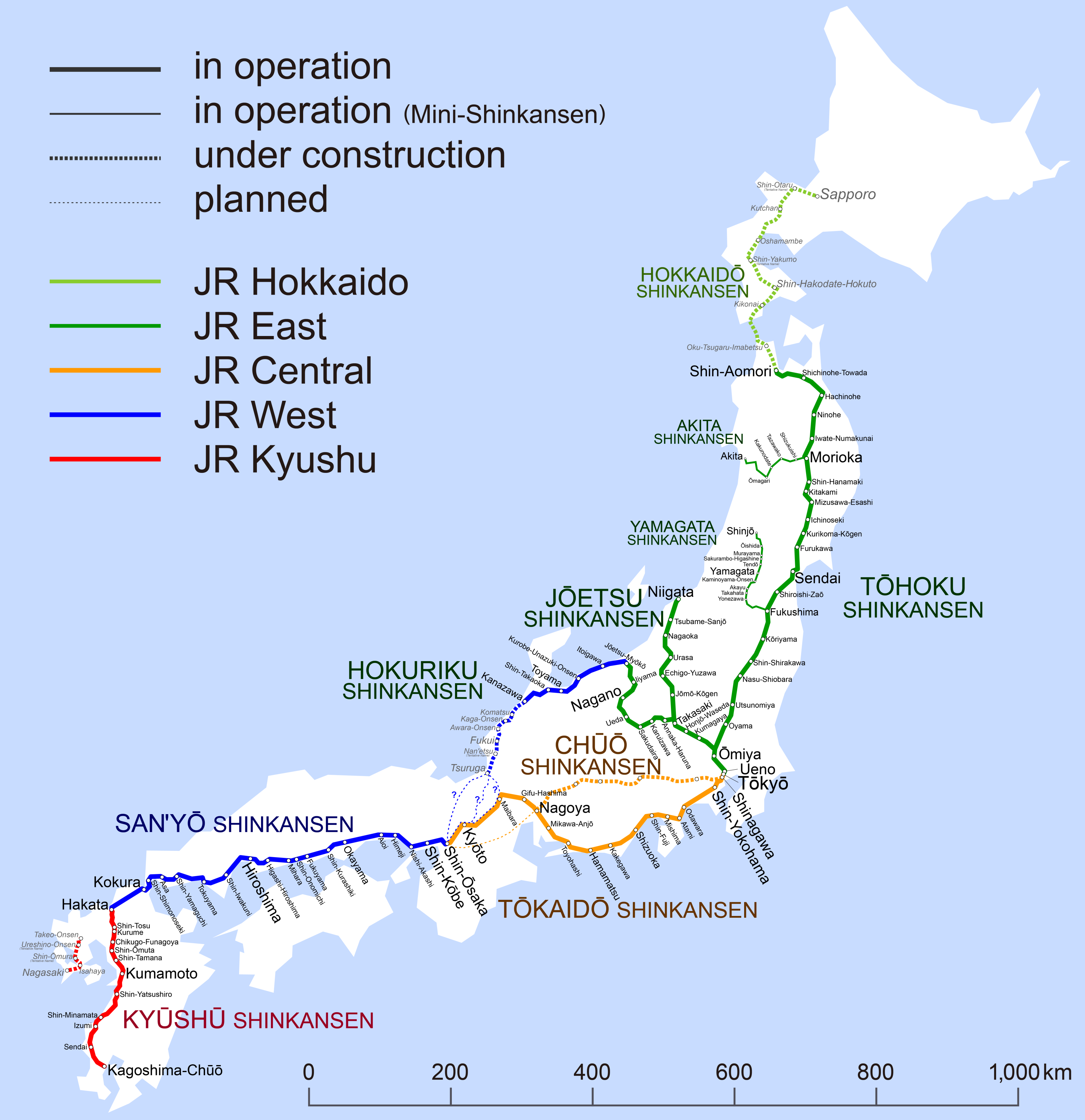 Map of Shinkansen network. (2015-03 - )